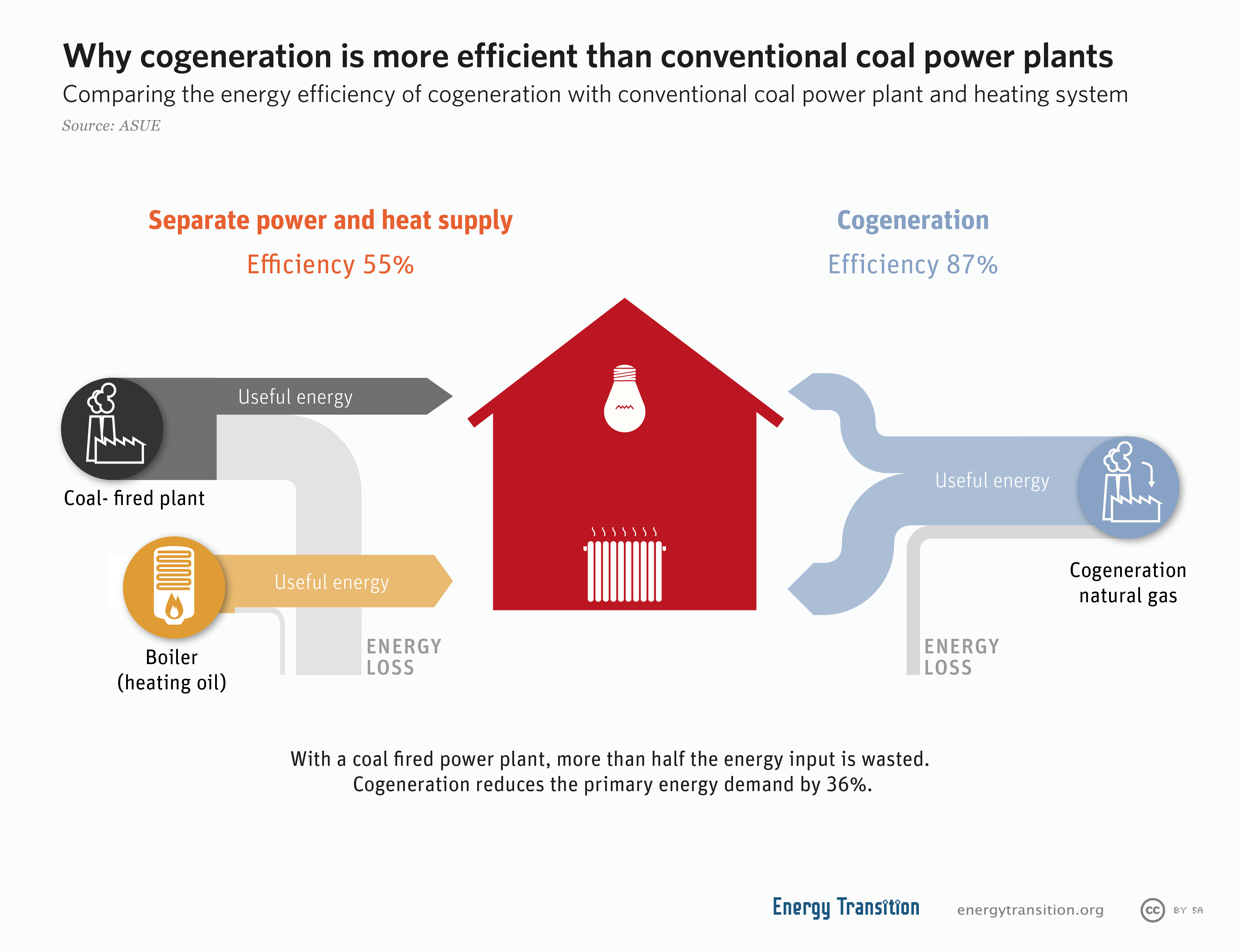 Why cogeneration is more efficient than conventional coal power plants